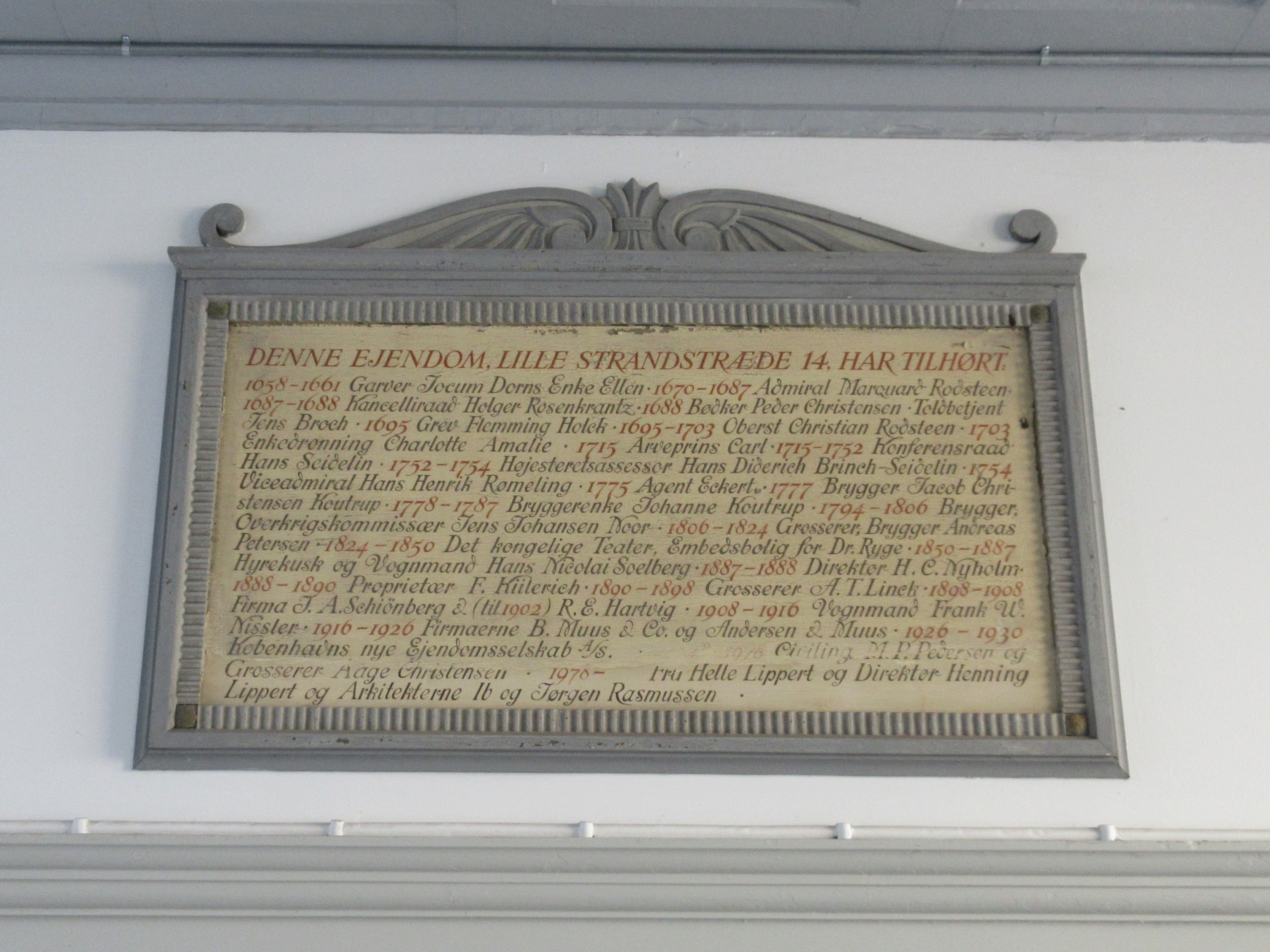 List of former owners inside the gateway of Lille Strandstræde 14 in Copenhagen, Denmark